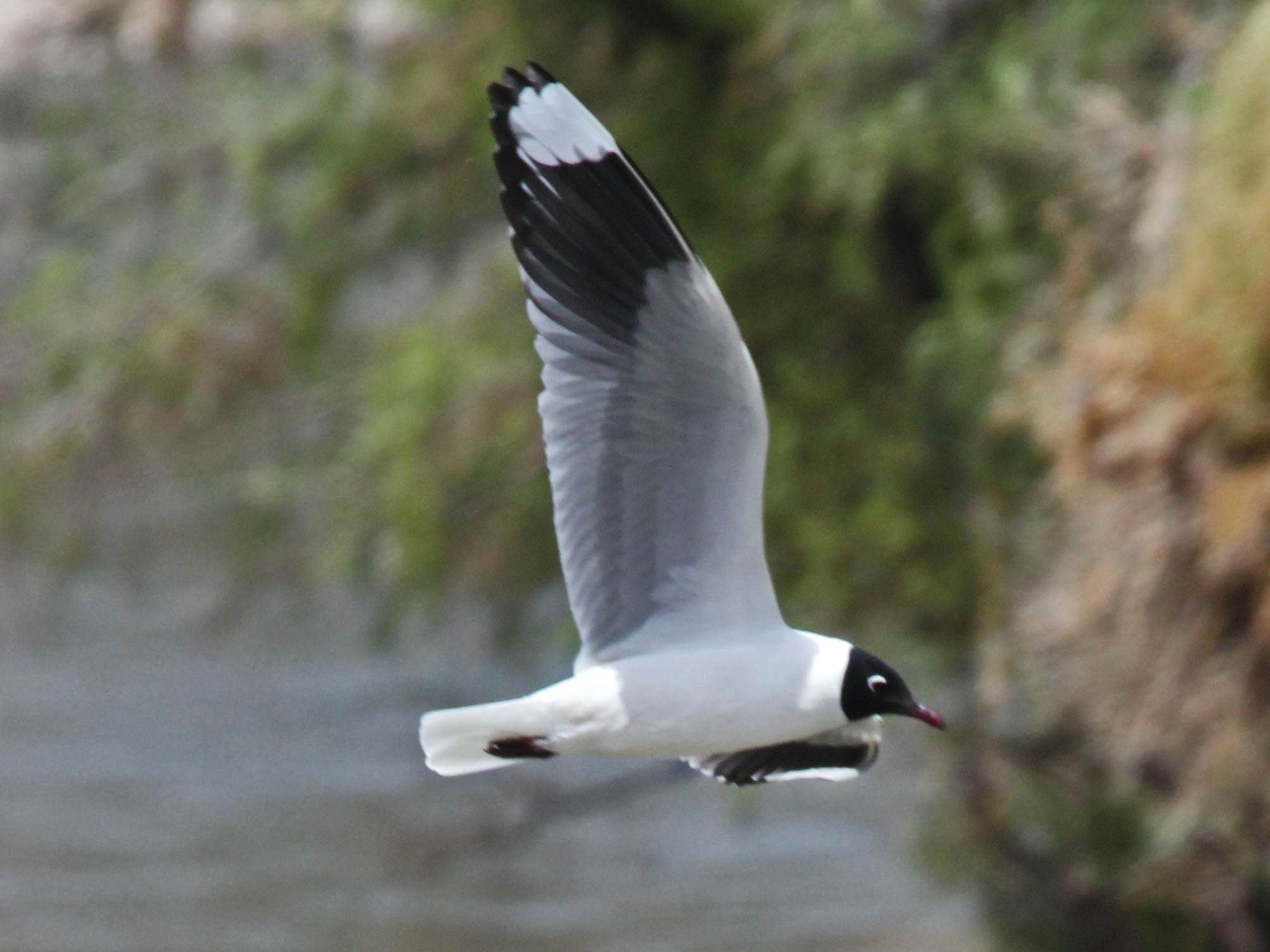 Breeding Andean Gull (Chroicocephalus serranus) - Sacred Valley, Peru